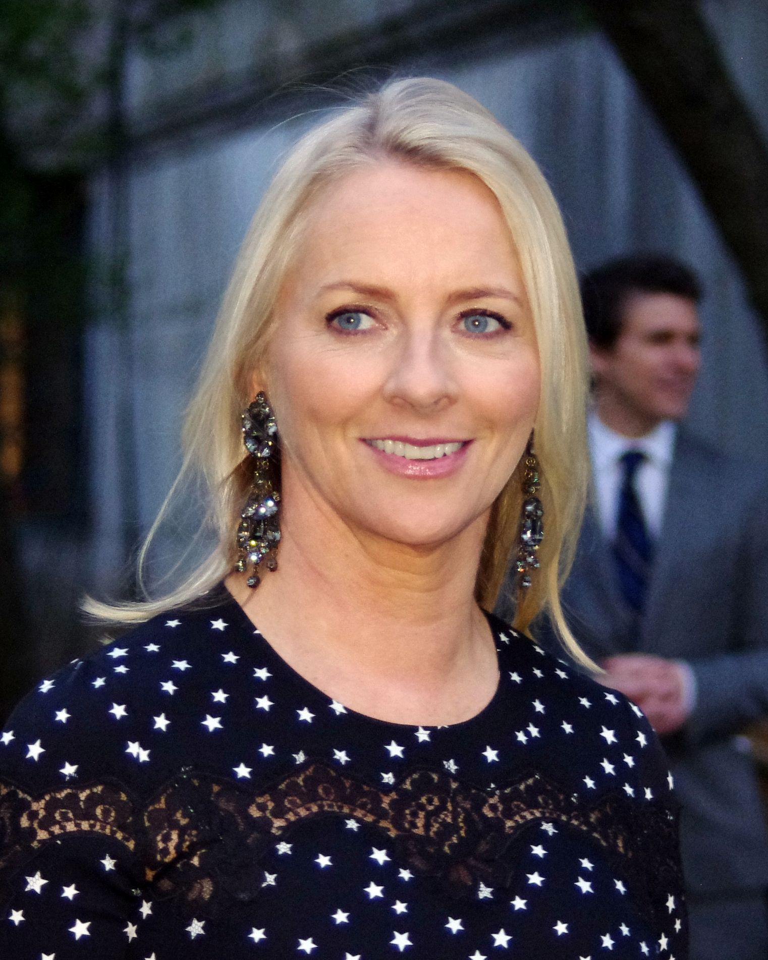 Linda Wells at the Vanity Fair party for the 2012 Tribeca Film Festival.